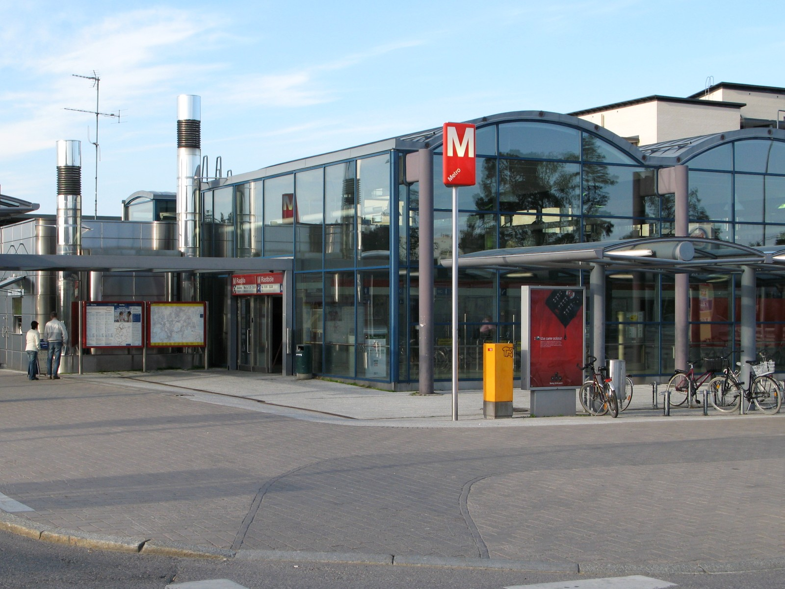 Main entrance of Rastila metrostation in Helsinki, Finland.